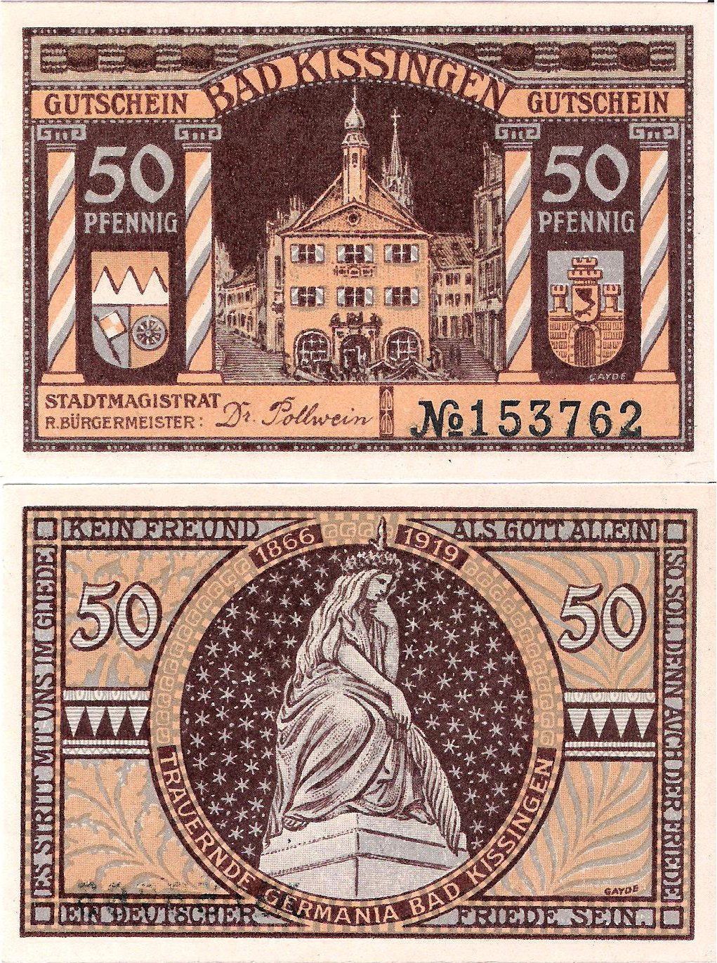 local emergency money, Bad Kissingen